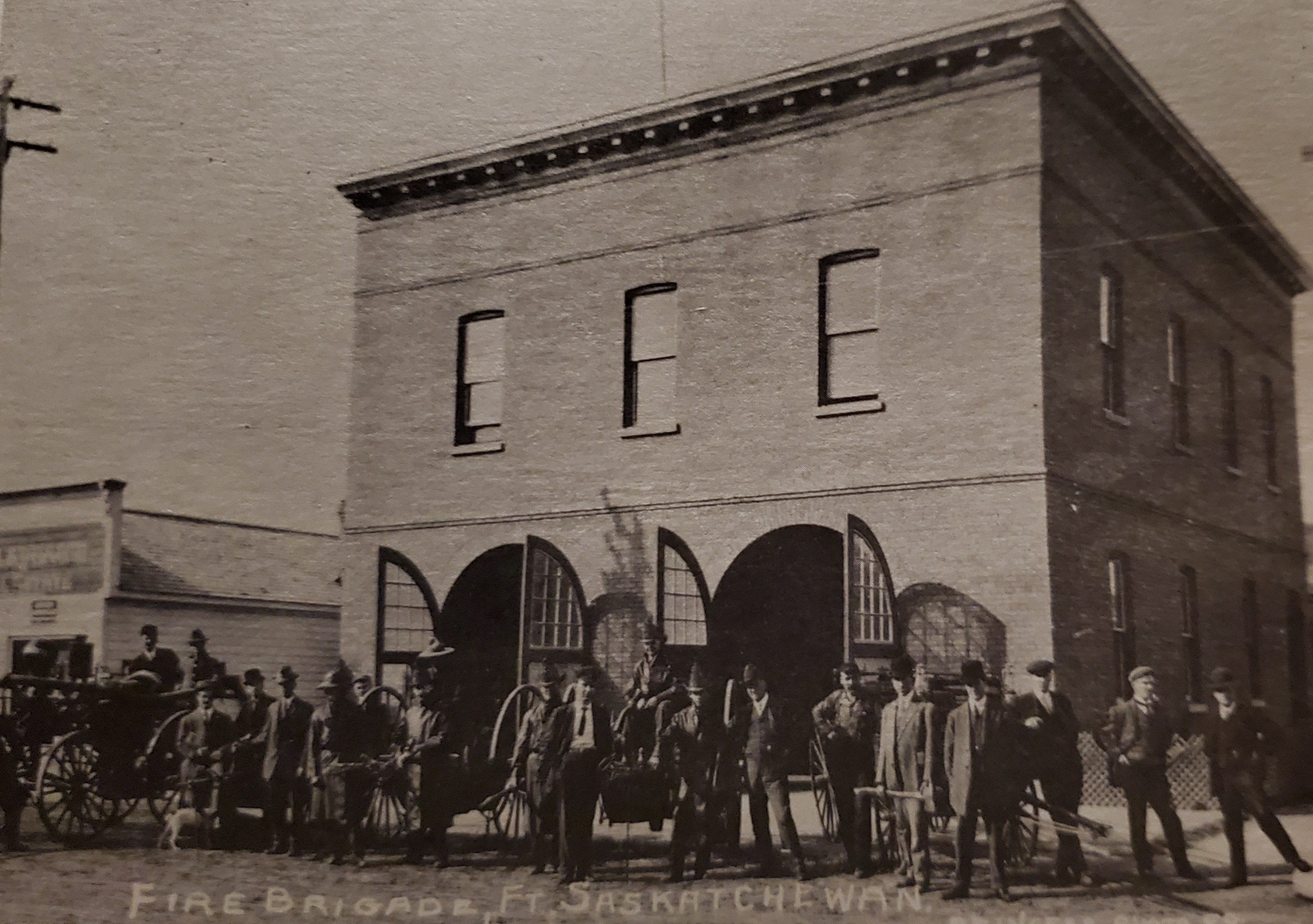 The Fort Saskatchewan Fire Department gathered outside of the combined fire/town hall in 1910. The fire hall was on the first floor, and the town hall was on the second floor.